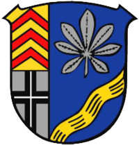 The right half shows in the upper part the chevrons of the Counts of Hanau, and in the base the cross of the State of Fulda. Both had several possessions in the territory of the municipality. The leaf is a chestnut leaf with seven branches, for the seven villages in the municipality (Eichenried, Heubach, Ober-, Mittel- and Niederkalbach, Uttrichshausen and Veitsteinbach). The base shows a wavy bend for the Kalbach river.